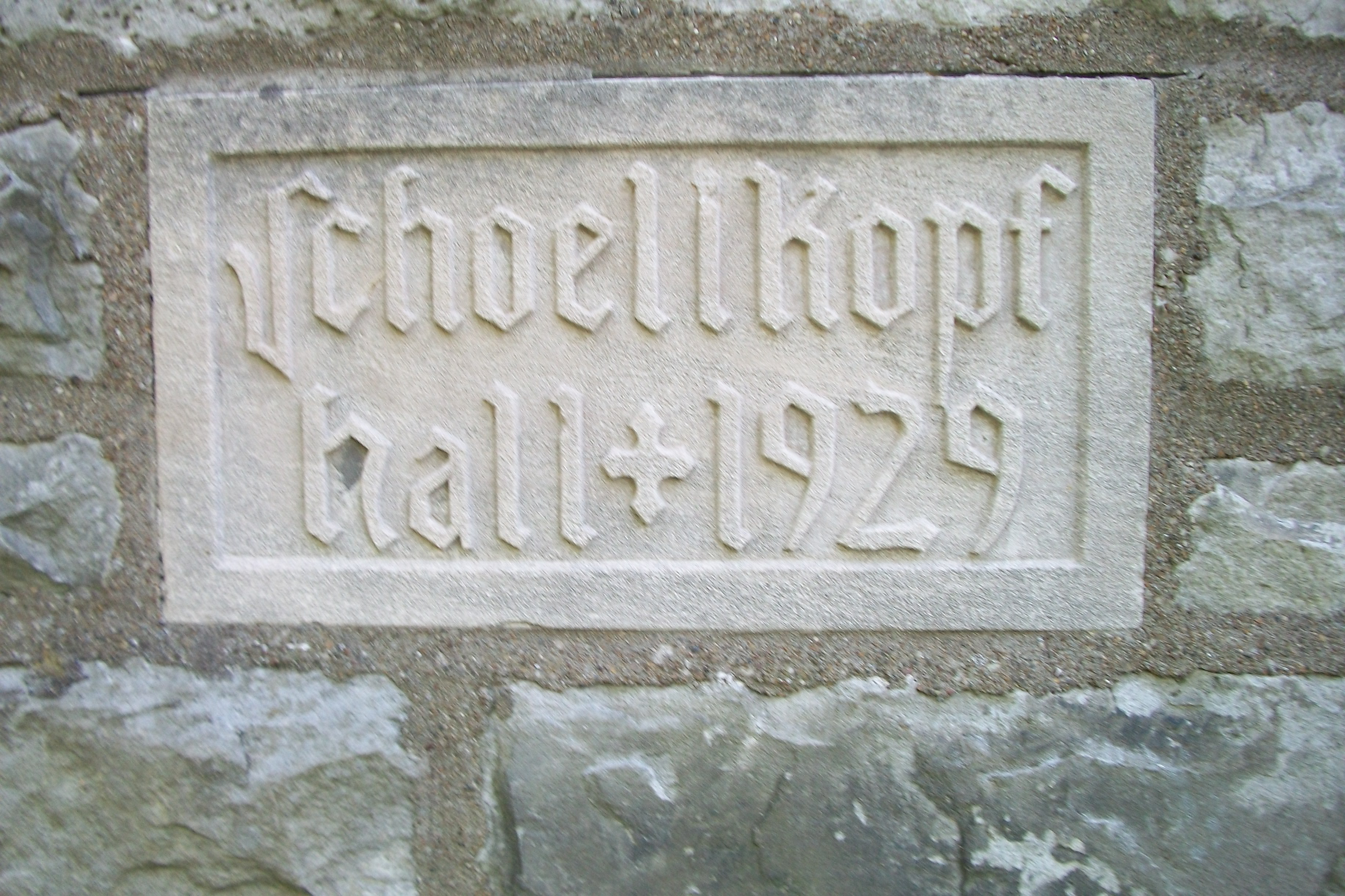 In Honor of Joseph Schoellkopf Pioneer Hydro Elecric Power